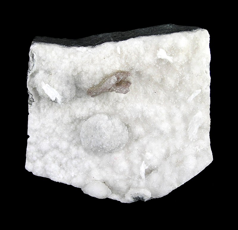 Yugawaralite Locality: Jalgaon District, Maharashtra, India (Locality at ) Size: small cabinet, 6.7 x 5.9 x 2.5 cm Yugawaralite A superb cluster of 1.6 cm blades of this very rare zeolite, with excellent luster and good gemminess near the terminations of each separate blade. This is an extremely rare zeolite.